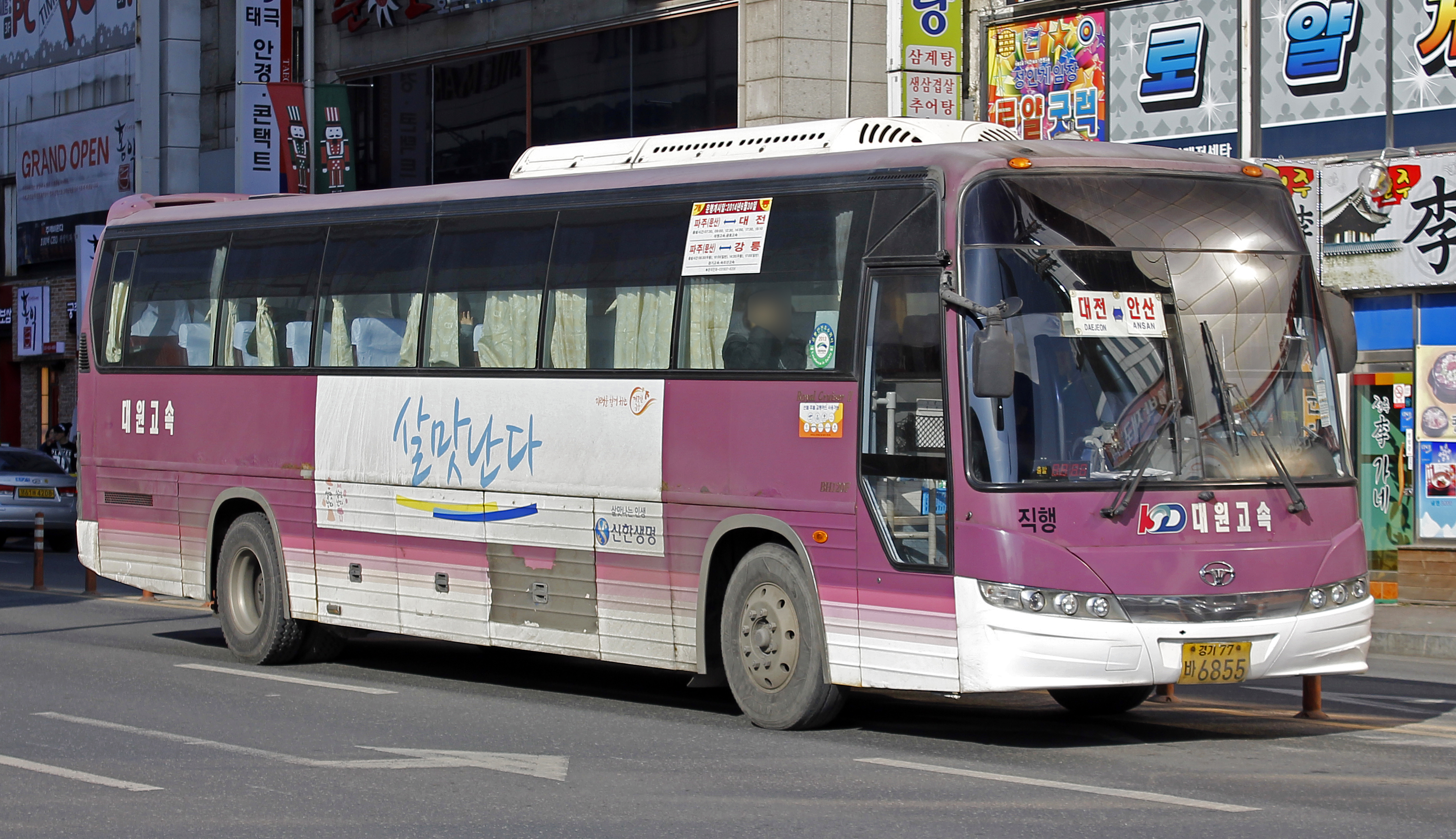 @Daejeon Intercity Bus Terminal